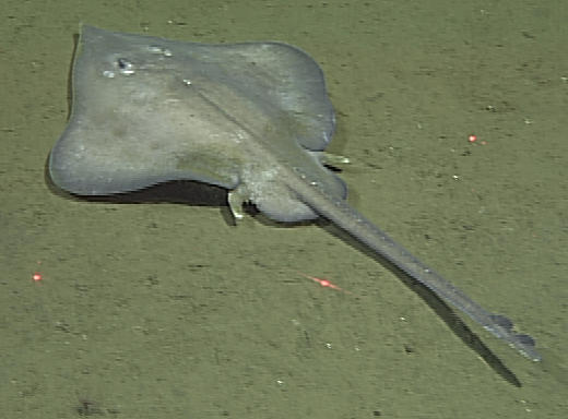 Deepsea skate (Bathyraja abyssicola) on the Davidson Seamount at 2373 meters depth.